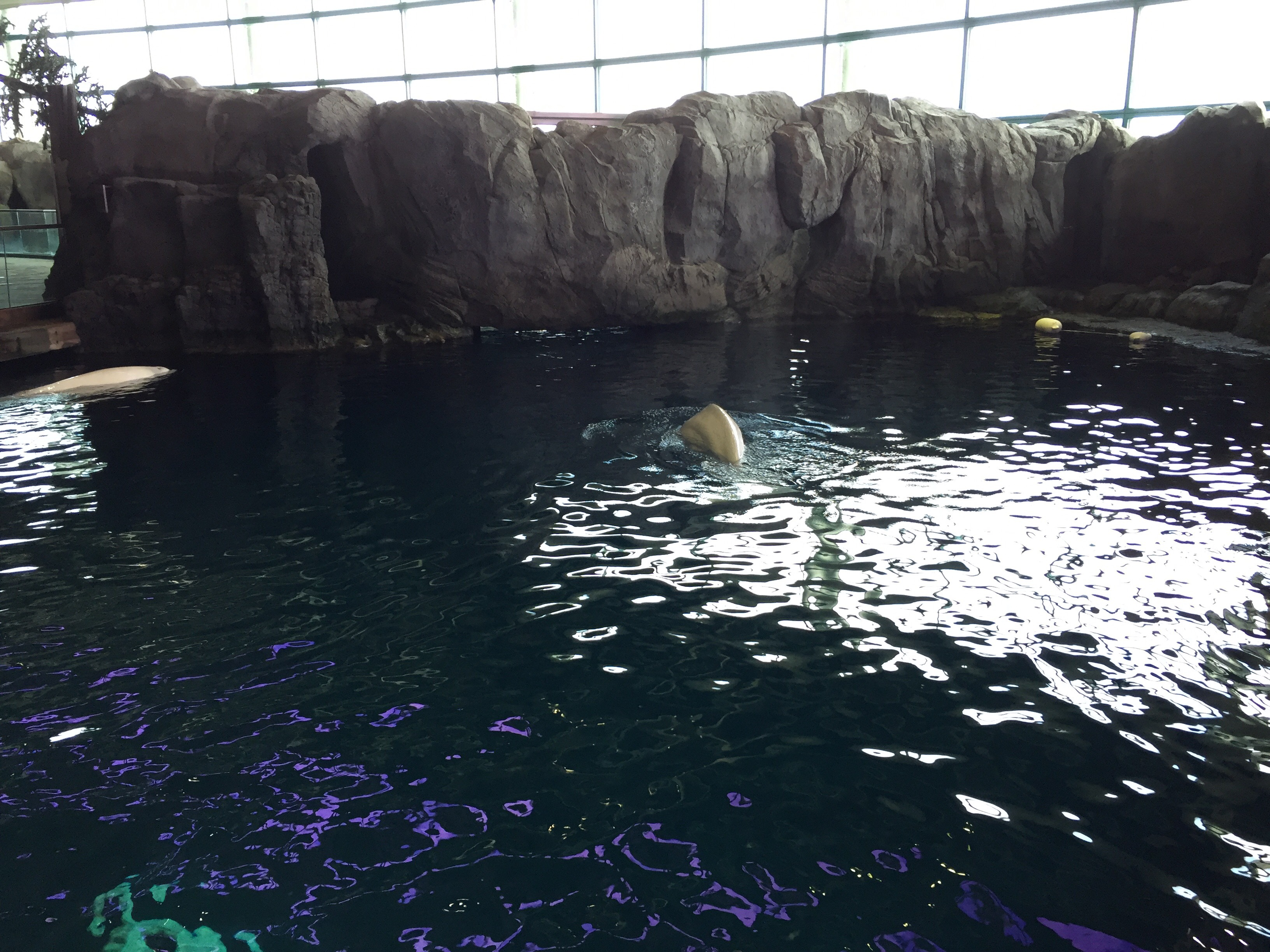 Beluga whales swimming in the Oceanarium at the Shedd Aquarium in Chicago on September 2, 2017.